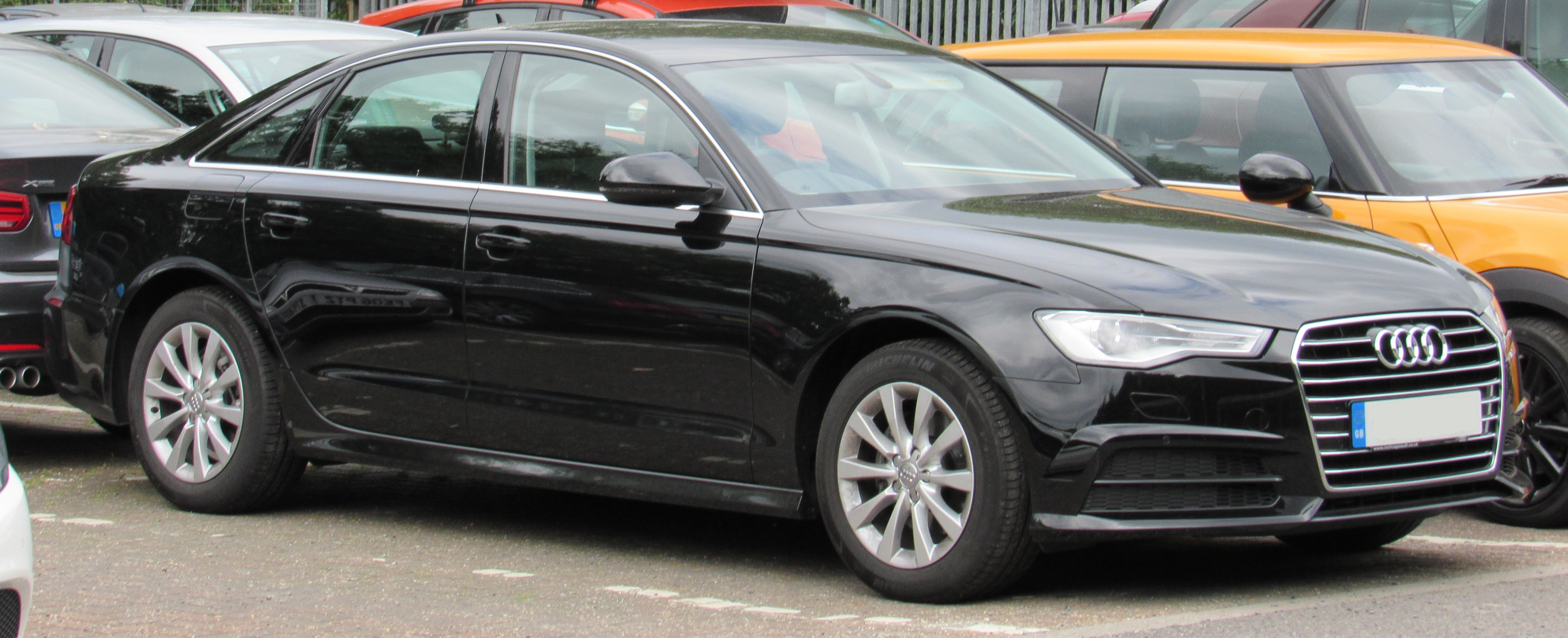 2017 Audi A6 SE Executive TDI Ultra S-A 2.0 Taken in Warwick Parkway Station, Warwickshire